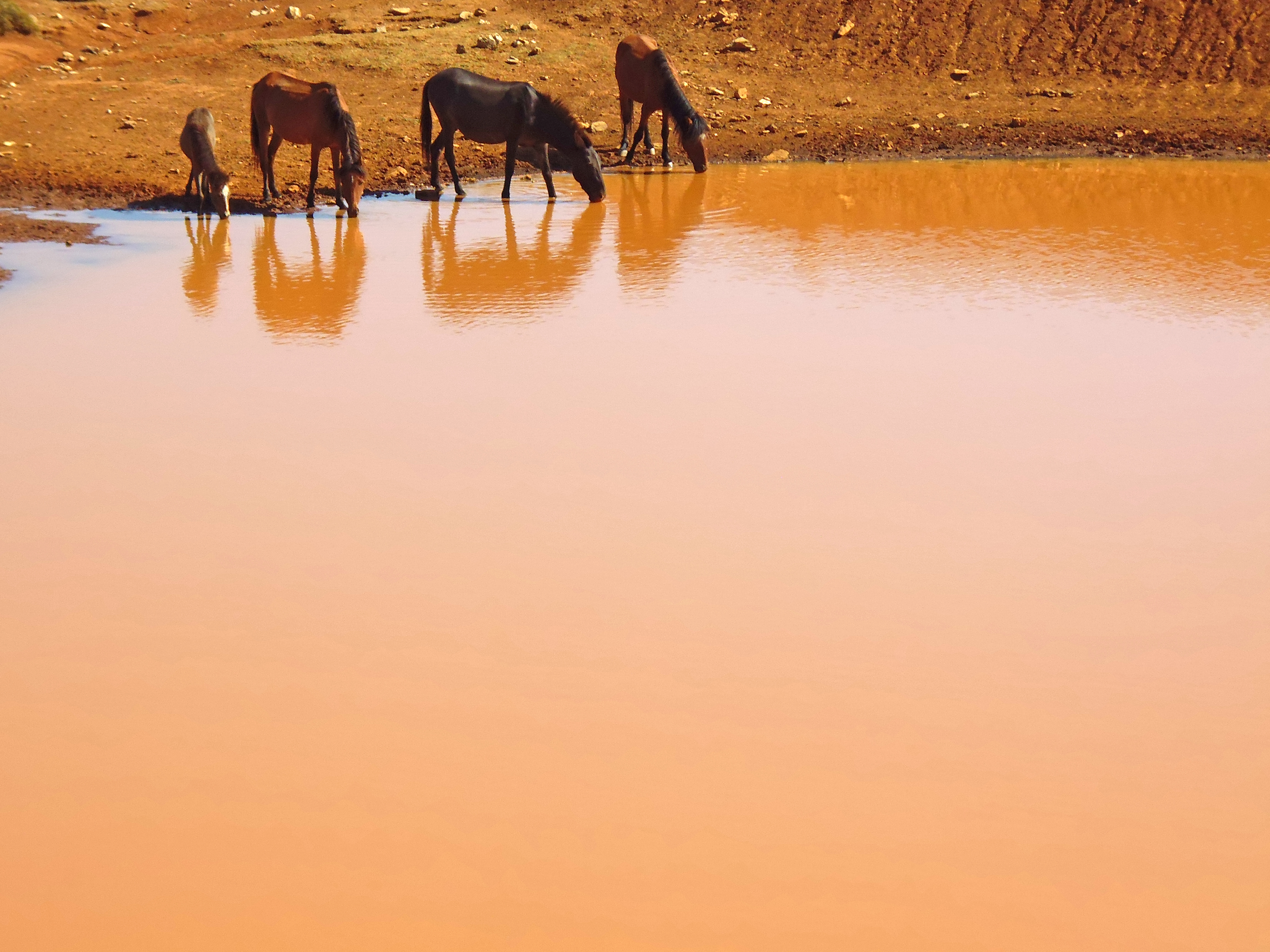 Skyrian ponies, waterhole at Aris Plateau, Kochilas Mount This is a photography of Natura 2000 protected area with ID GR2420006